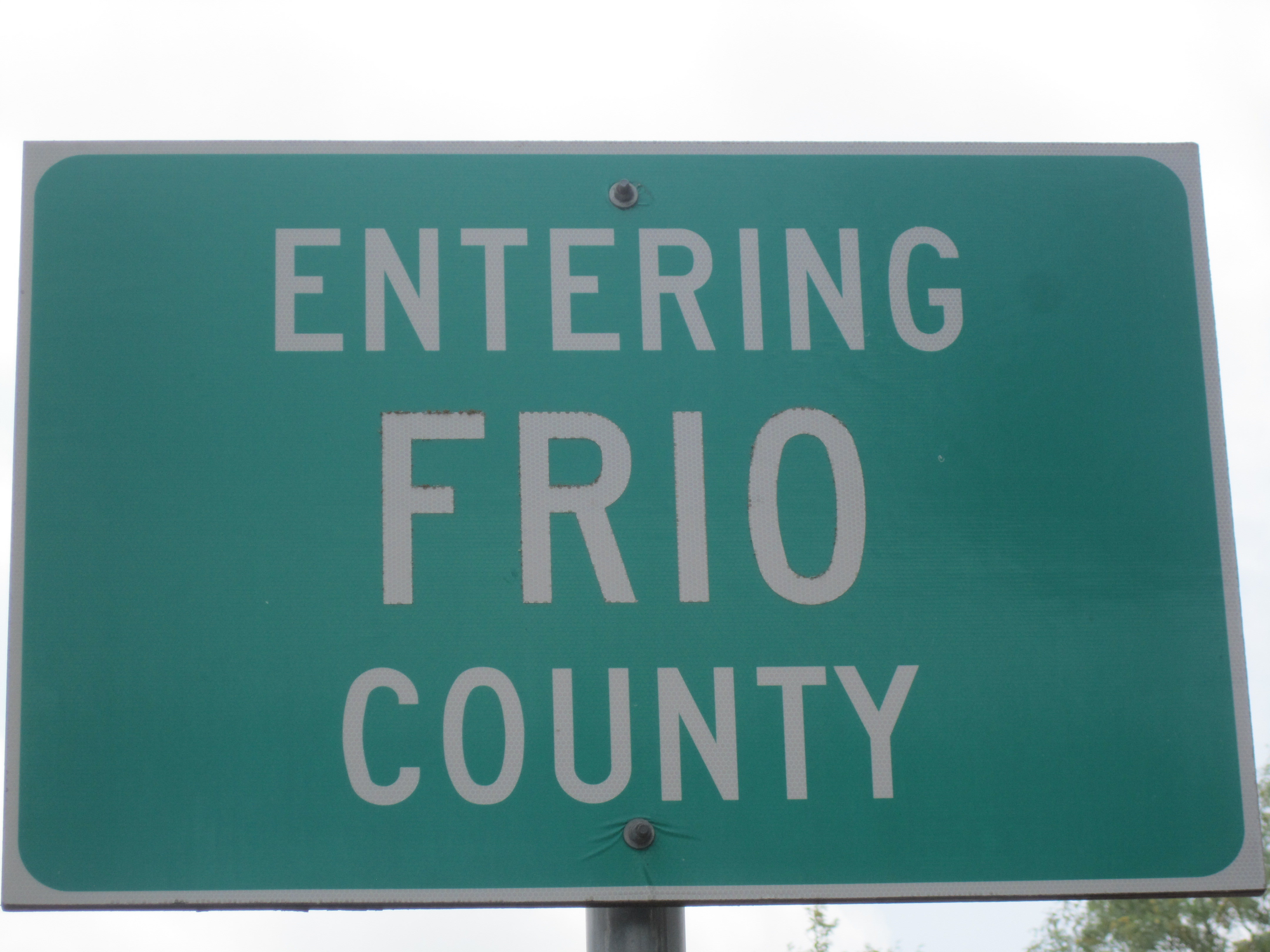 I took photo with Canon camera in Frio Co., TX.